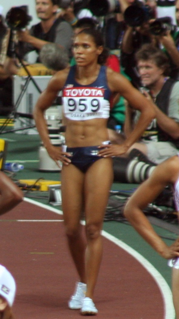 World Athletics Championships 2007 in Osaka - Torri Edwards after the 100 metres final